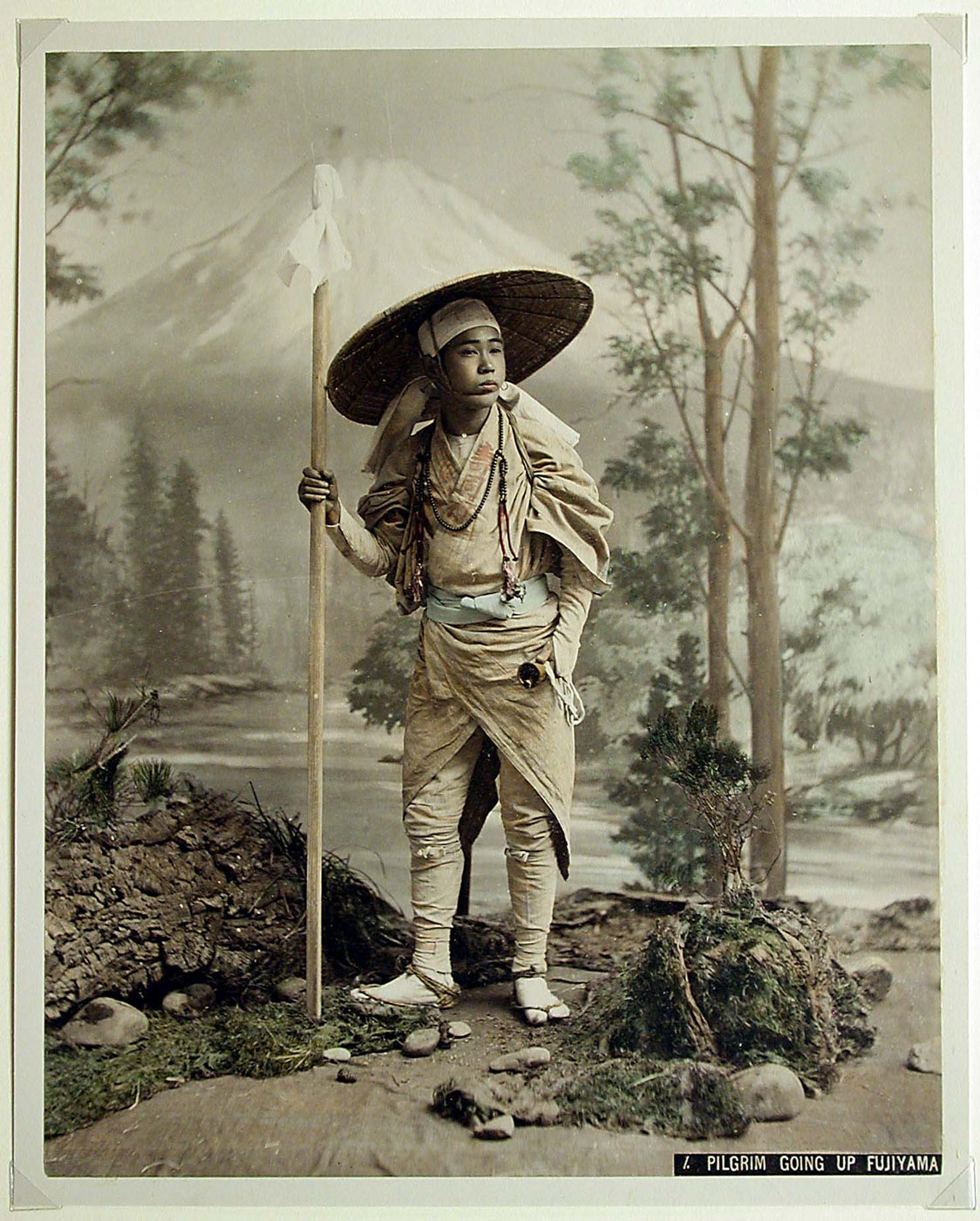 1 Photographic print : hand coloring ; image 25.2 x 19.9 cm., on mount 26.5 x 21.2 cm.